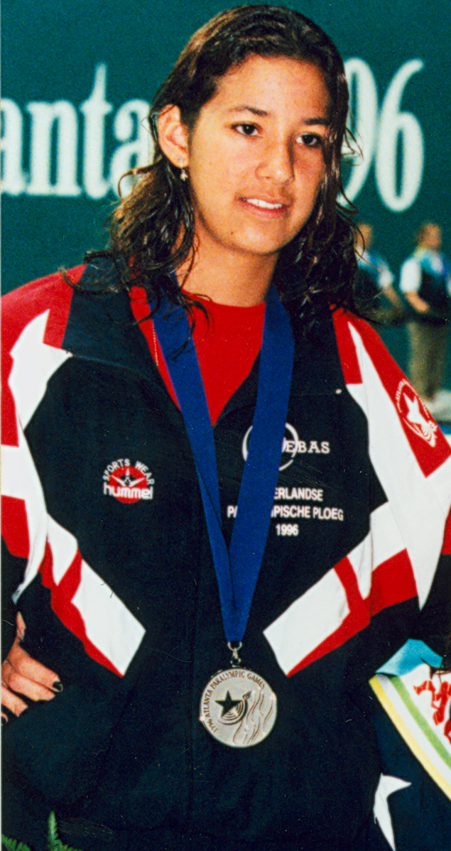 Australian swimmer Priya Cooper (middle) with Syreeta van Amelsvoort (left) from The Netherlands and Silvia Vives (right) from Spain at the 1996 Paralympic Games in Atlanta.